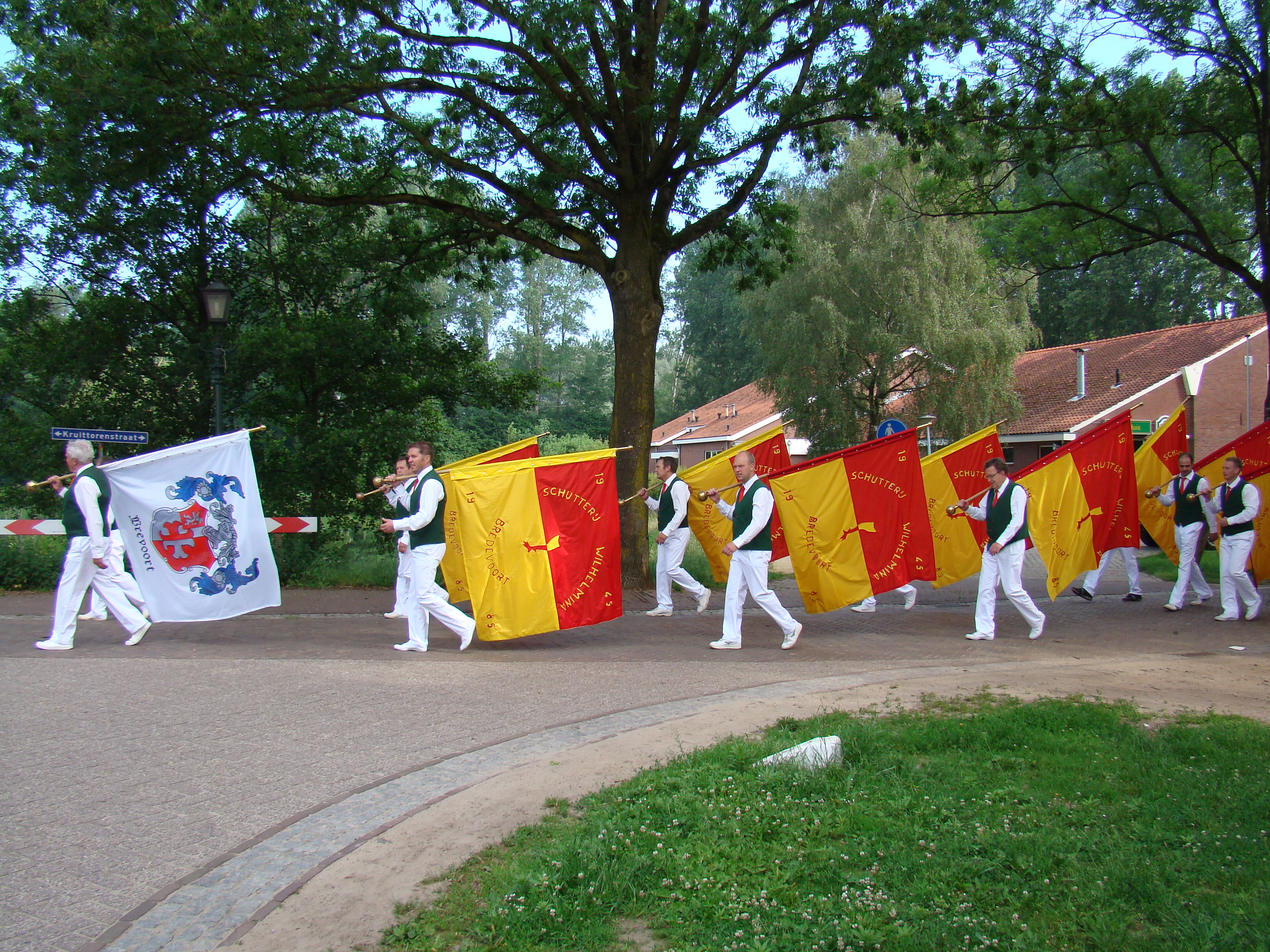 Schutterij Wilhelmina, city guard of Bredevoort, with flags of the city. (Netherlands)